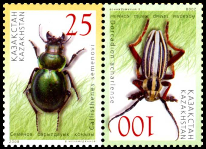 Stamp of Kazakhstan